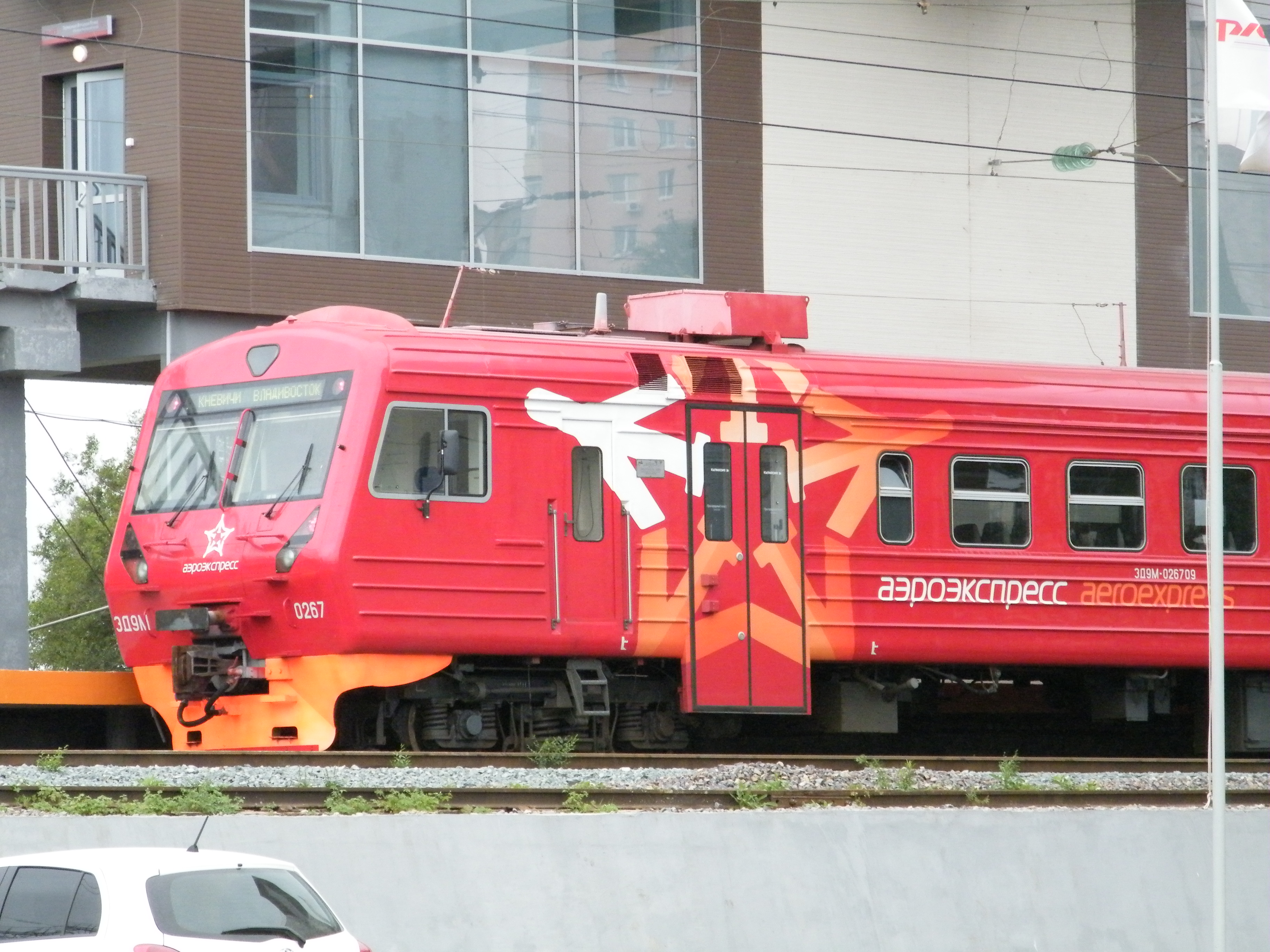 Аэроэкспресс Владивосток-Кневичи